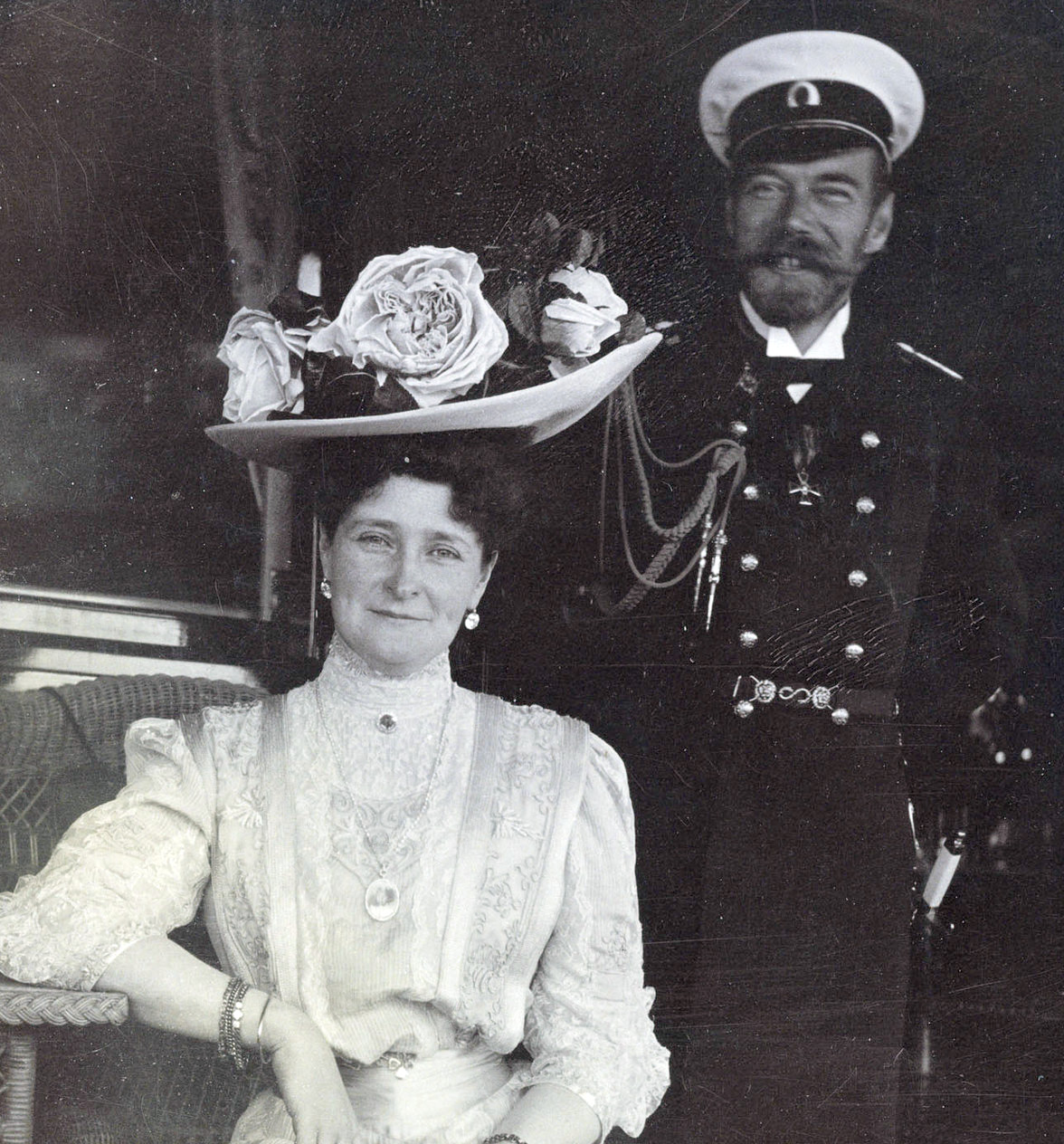 Empress Alexandra and Nicholas II on board the Imperial Yacht Standart, at Reval, Russia (now Tallinn, Estonia).